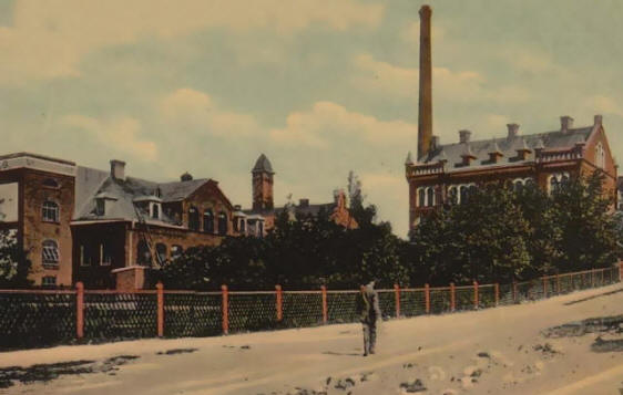 Carl Richard Nyberg's Solder lamp factory at Prästgårdsgatan 9 in Sundbyberg, in 1910.